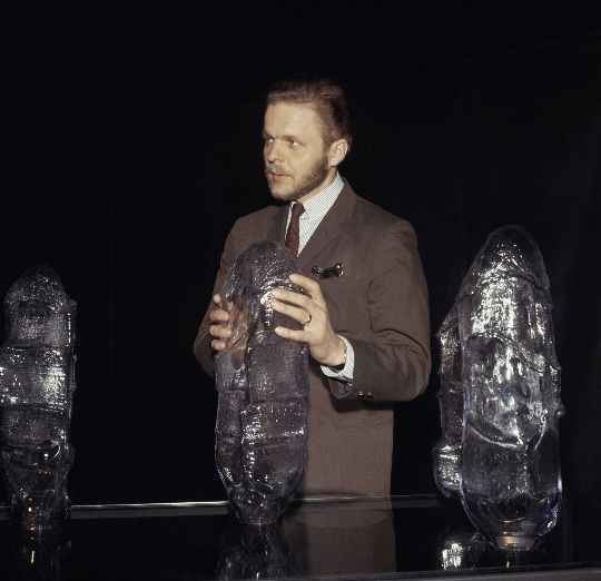 Photograph of the Finnish designer Timo Sarpaneva (1926–2006).